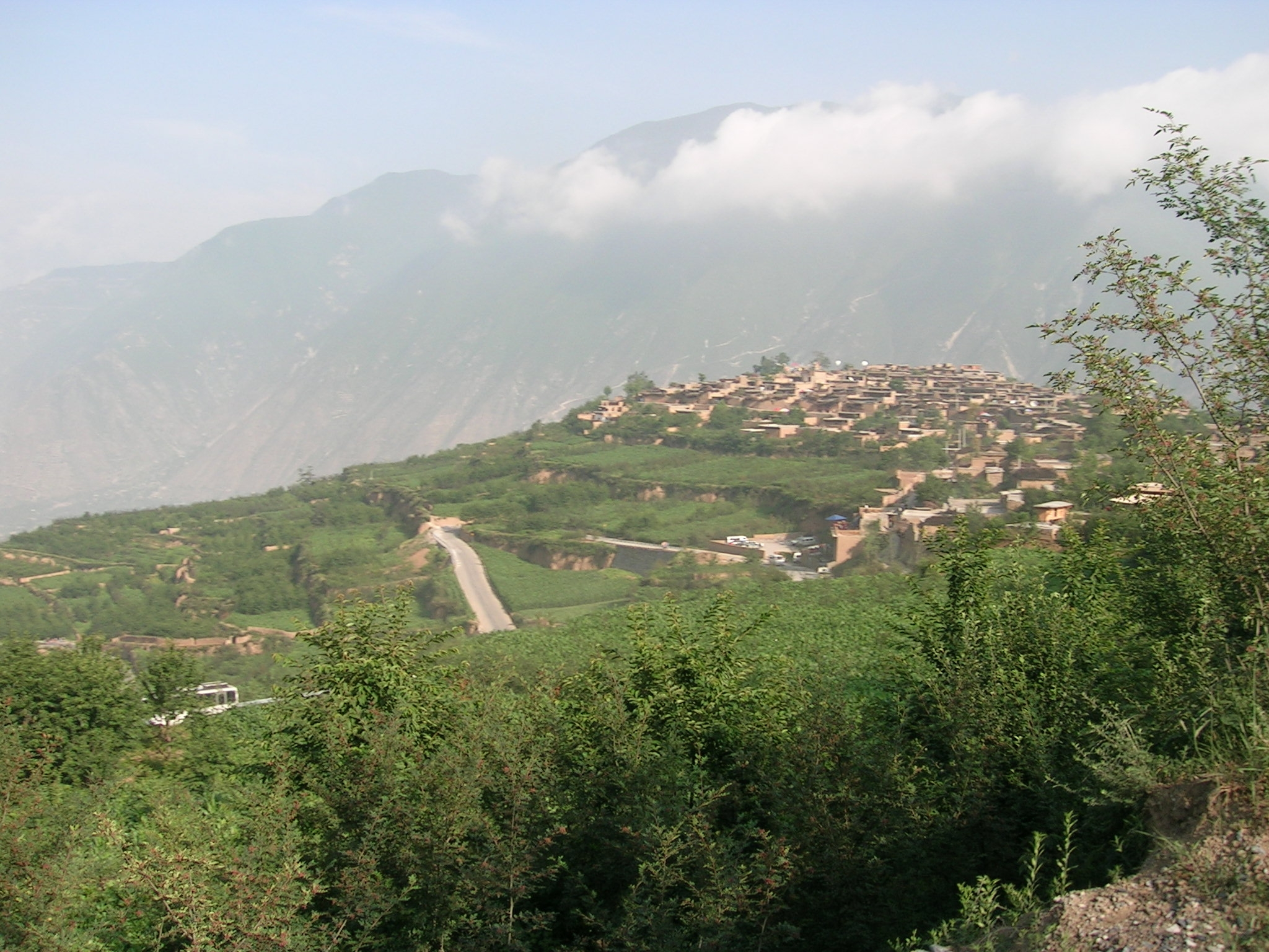 Luobozhai Village (photo by Raqueli, 1st July 2006, PD), near Wenchuan, Sichuan, China.